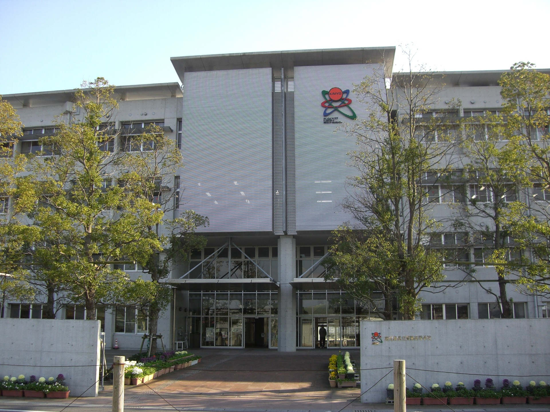 鹿児島県立開陽高等学校(Kaiyo High School, Kagoshima Prefecture, Japan)